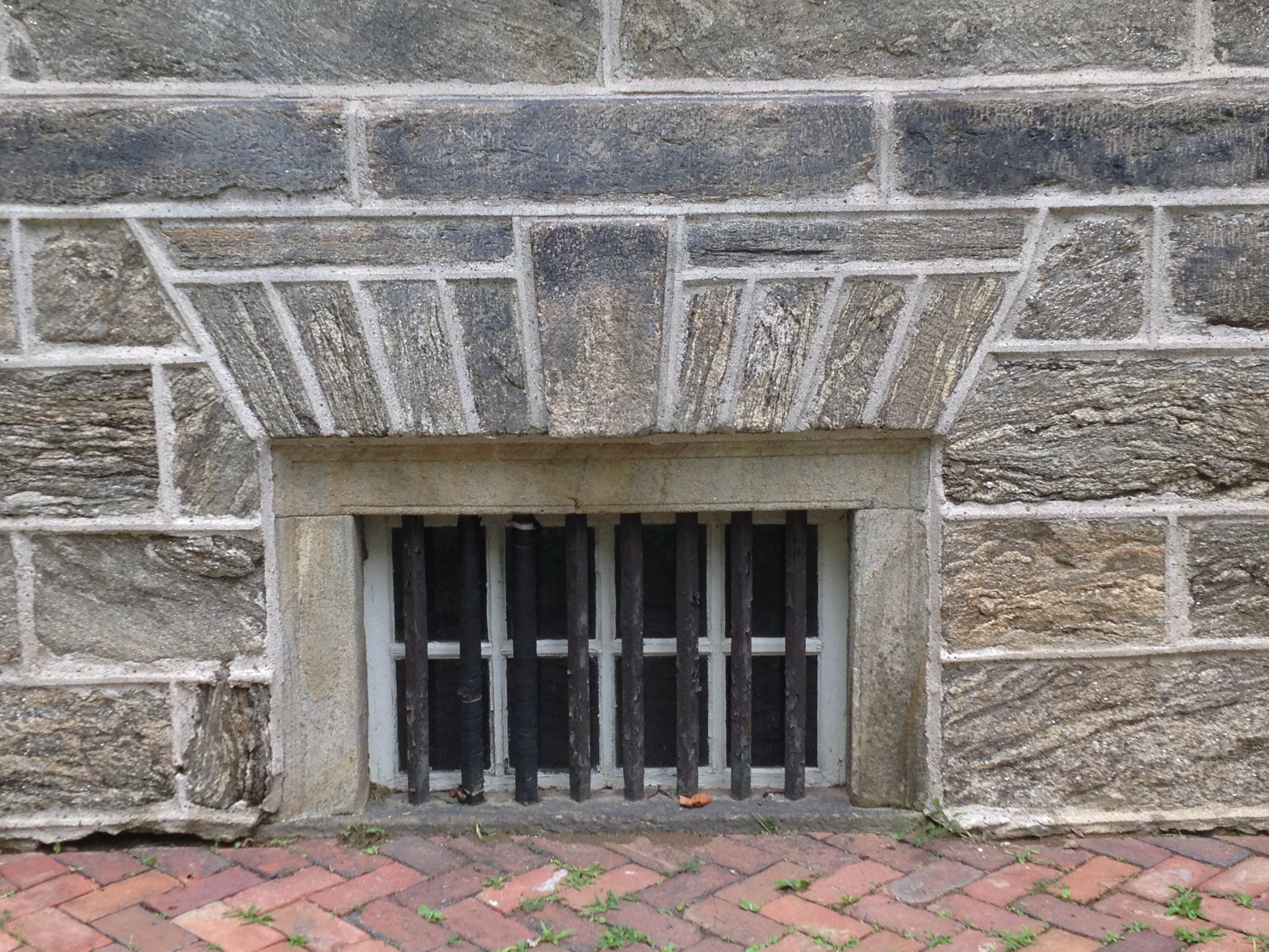 Closeup of Wissahickon schist stone in use as building material at Cliveden, the Benjamin Chew house at 6401 Germantown Avenue in the Germantown neighborhood of Philadelphia, PA.